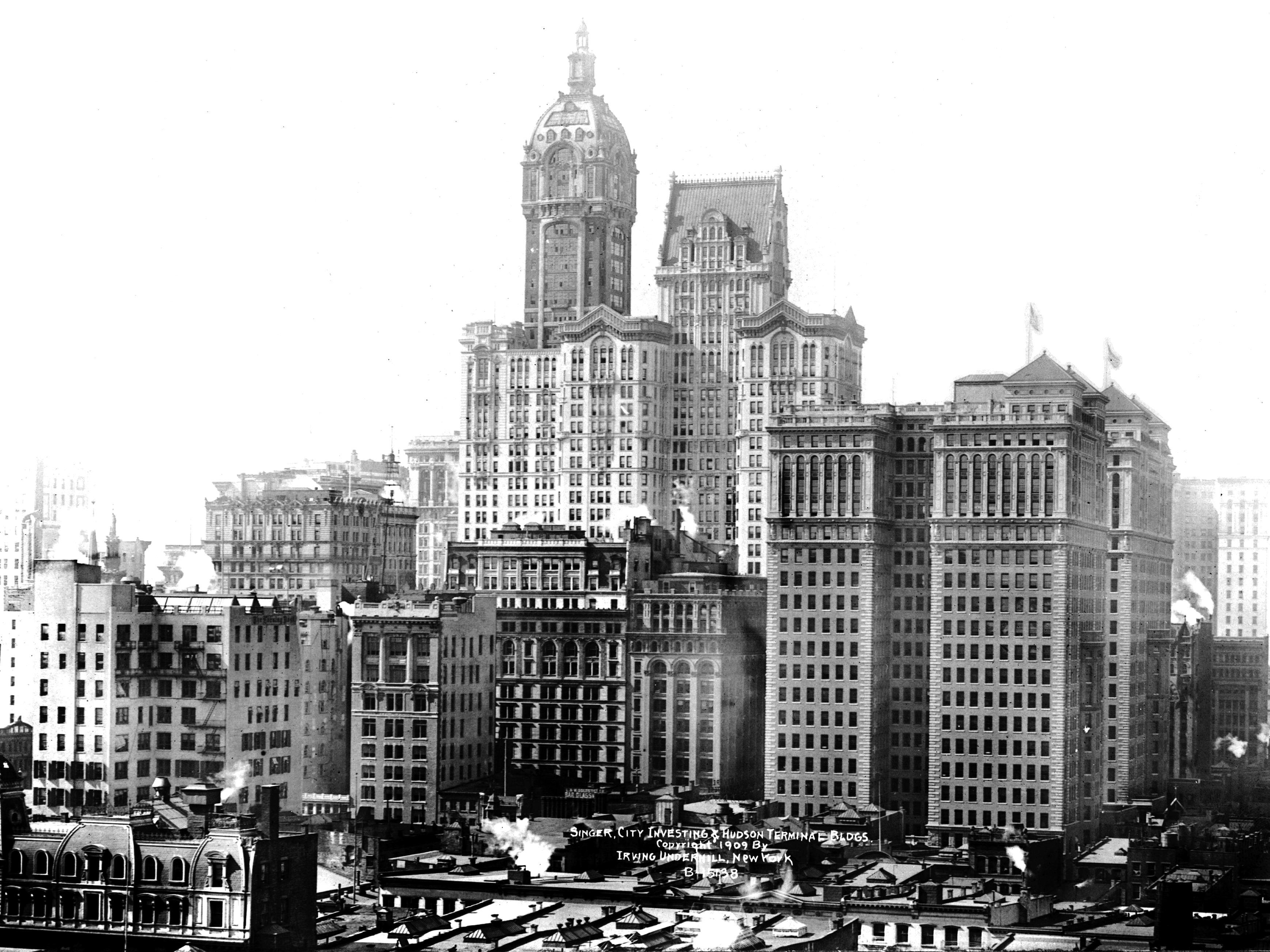 Singer, City Investing & Hudson Terminal Buildings, New York City (1909).